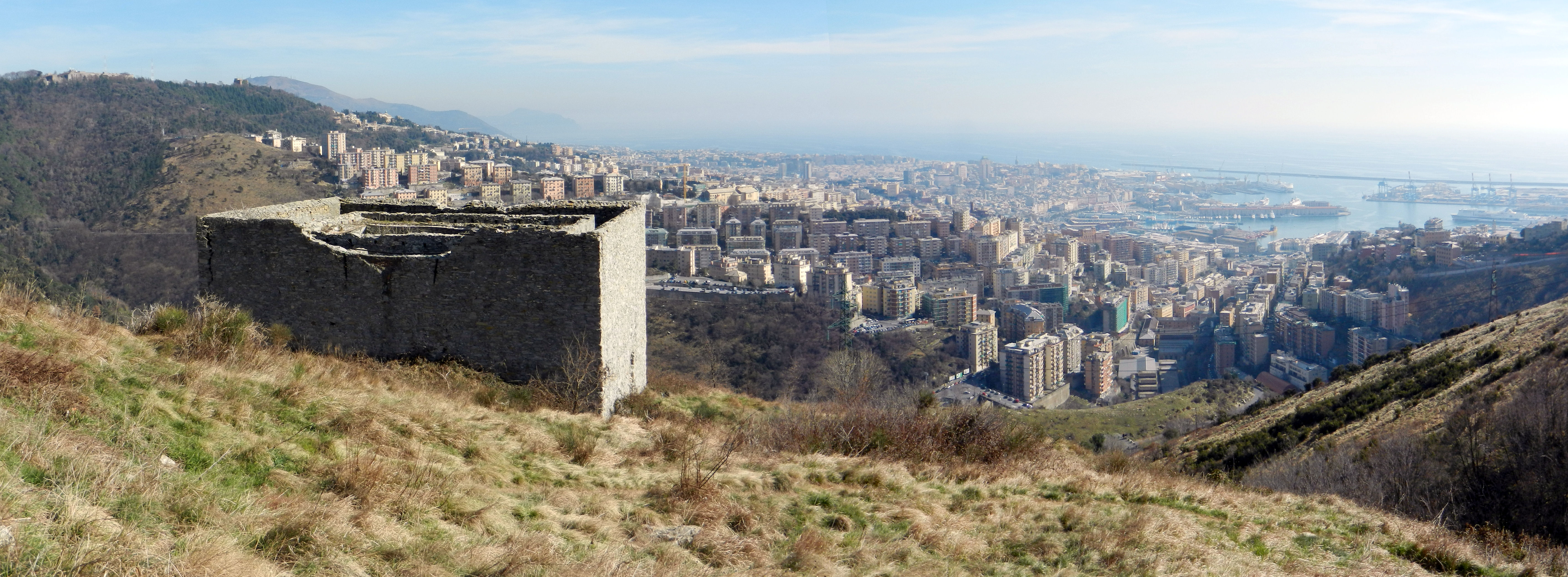 Genoa (Italy), view of the quarters Oregina and Lagaccio from Begato walls